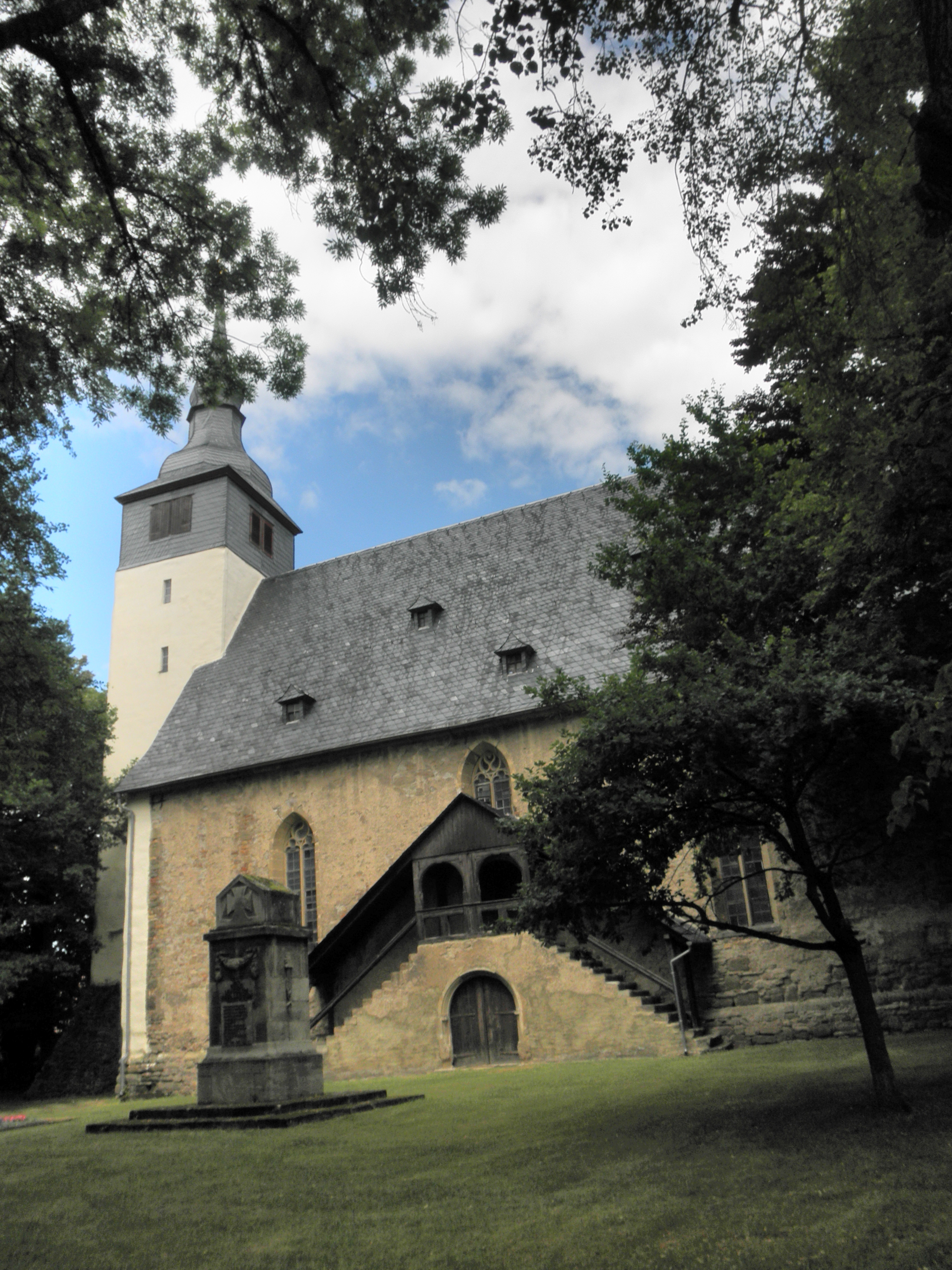 Church in Schloßvippach (Thuringia)